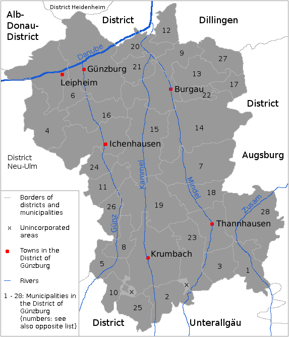 the district of Günzburg – map - English